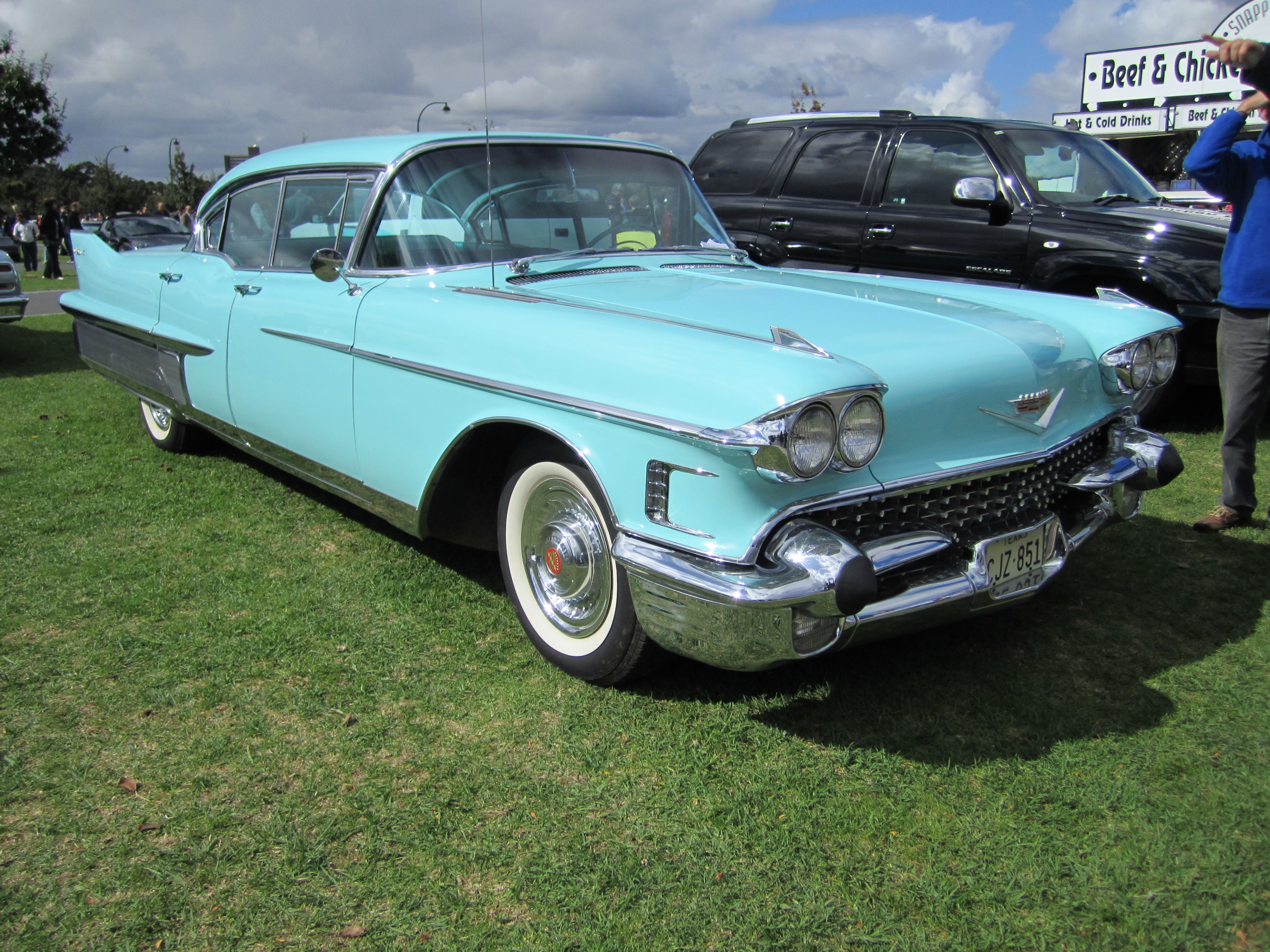 Available in Coupe, Sedan or Convertible. Engine; 365 V8